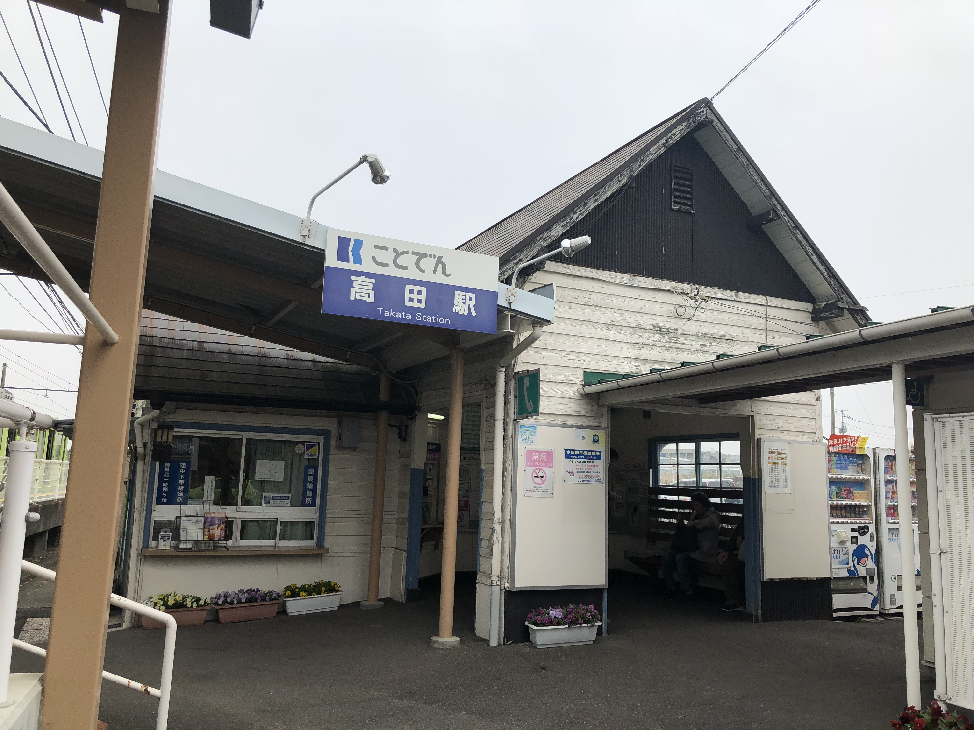 Takamatsu Kotohira Electric Railroad Takata Station Station building. March 19, 2018